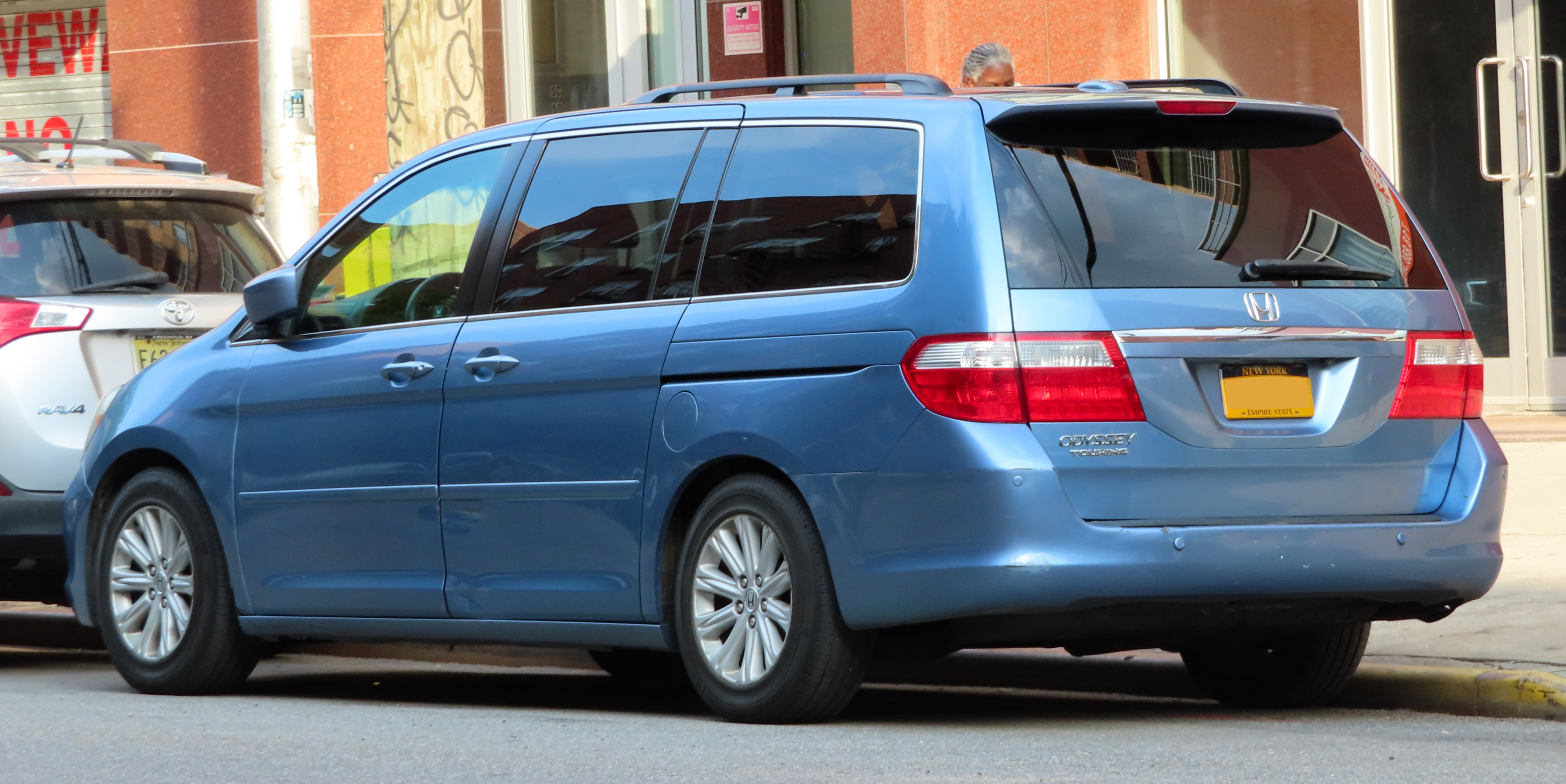 A 2006 Honda Odyssey Touring photographed in Flushing, Queens, New York, USA